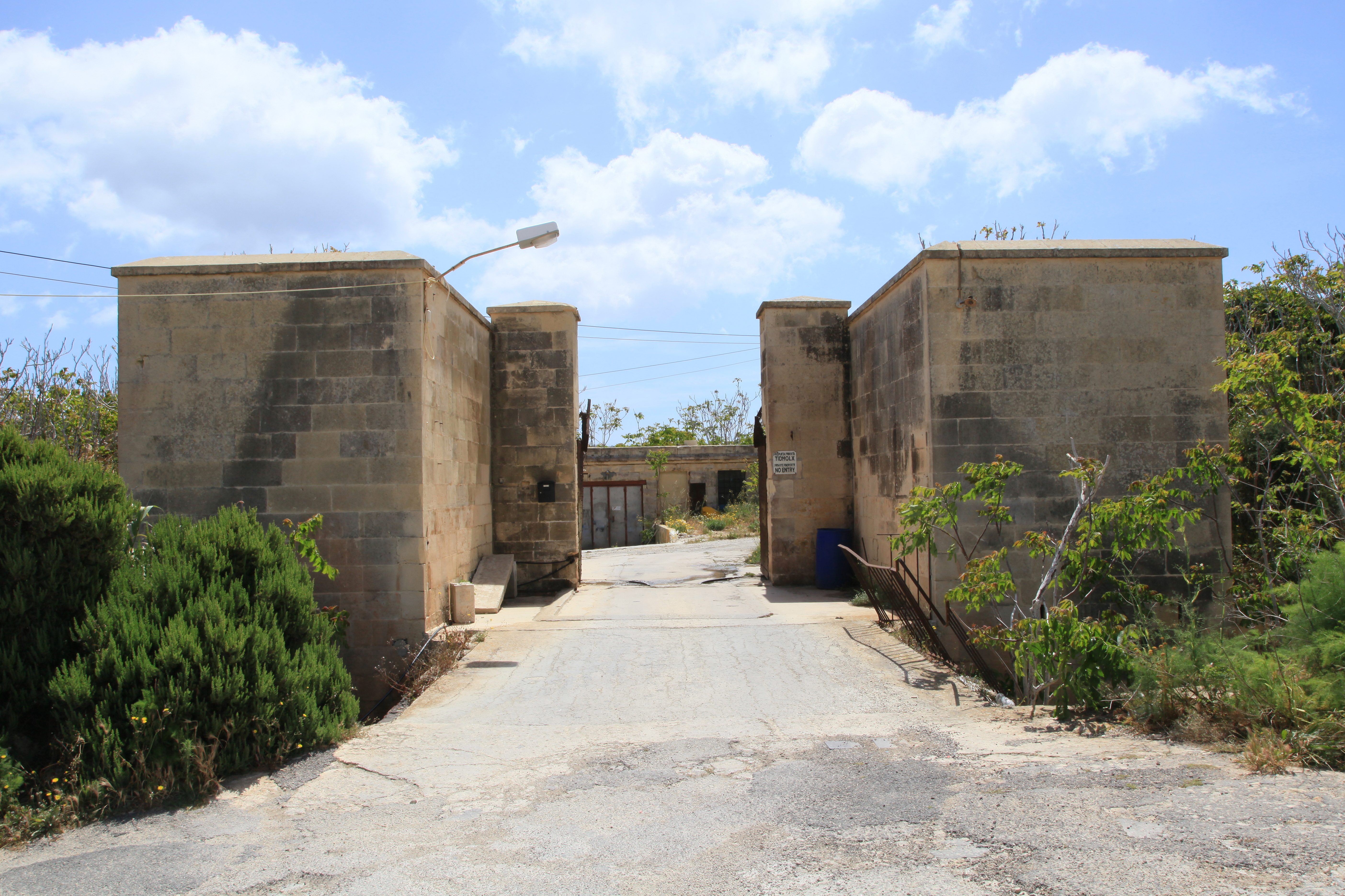 Fort Bengħajsa at Triq Bengħajsa in Birżebbuġa, Malta